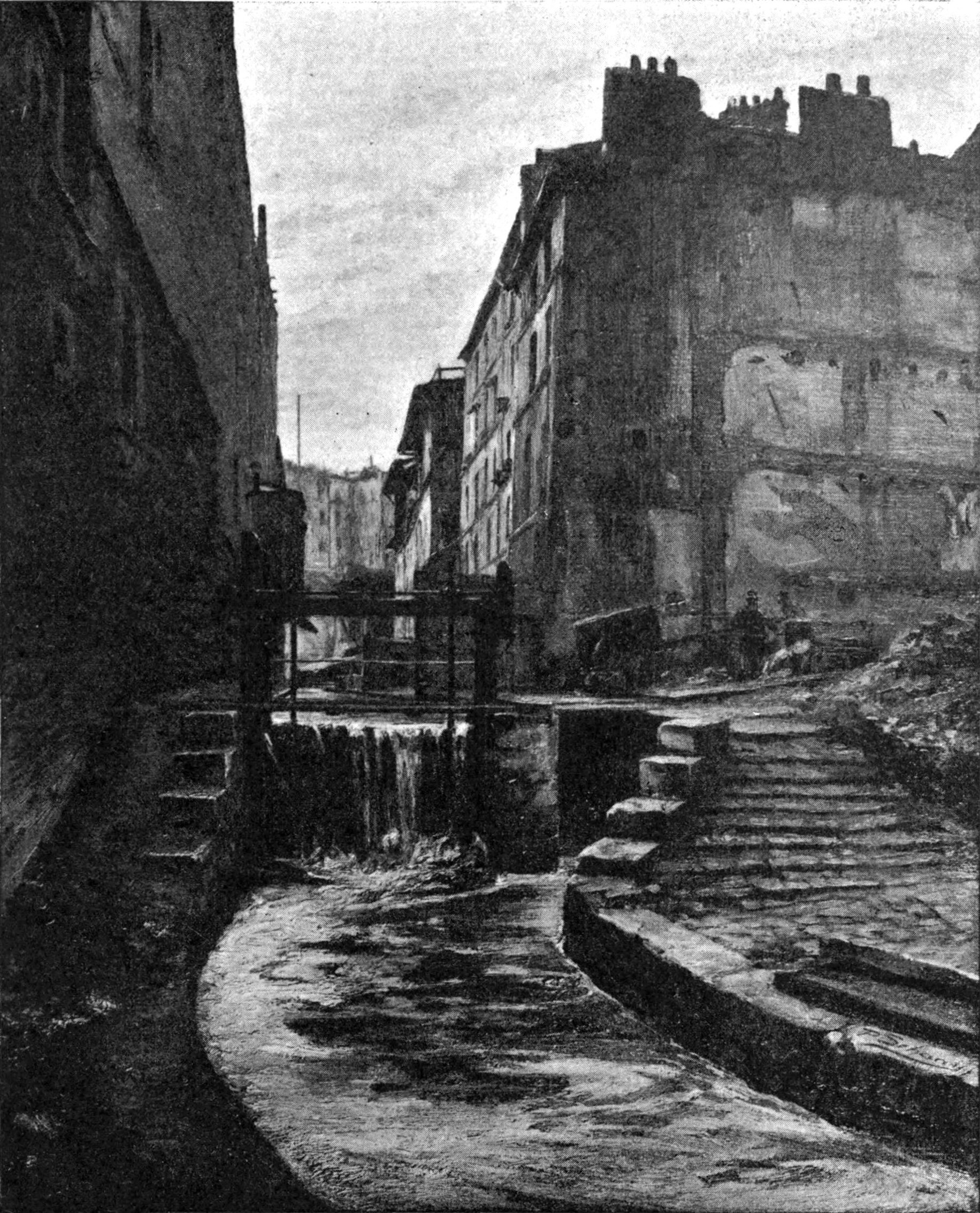 The Bievre about 1900 - The Valence mill-race.